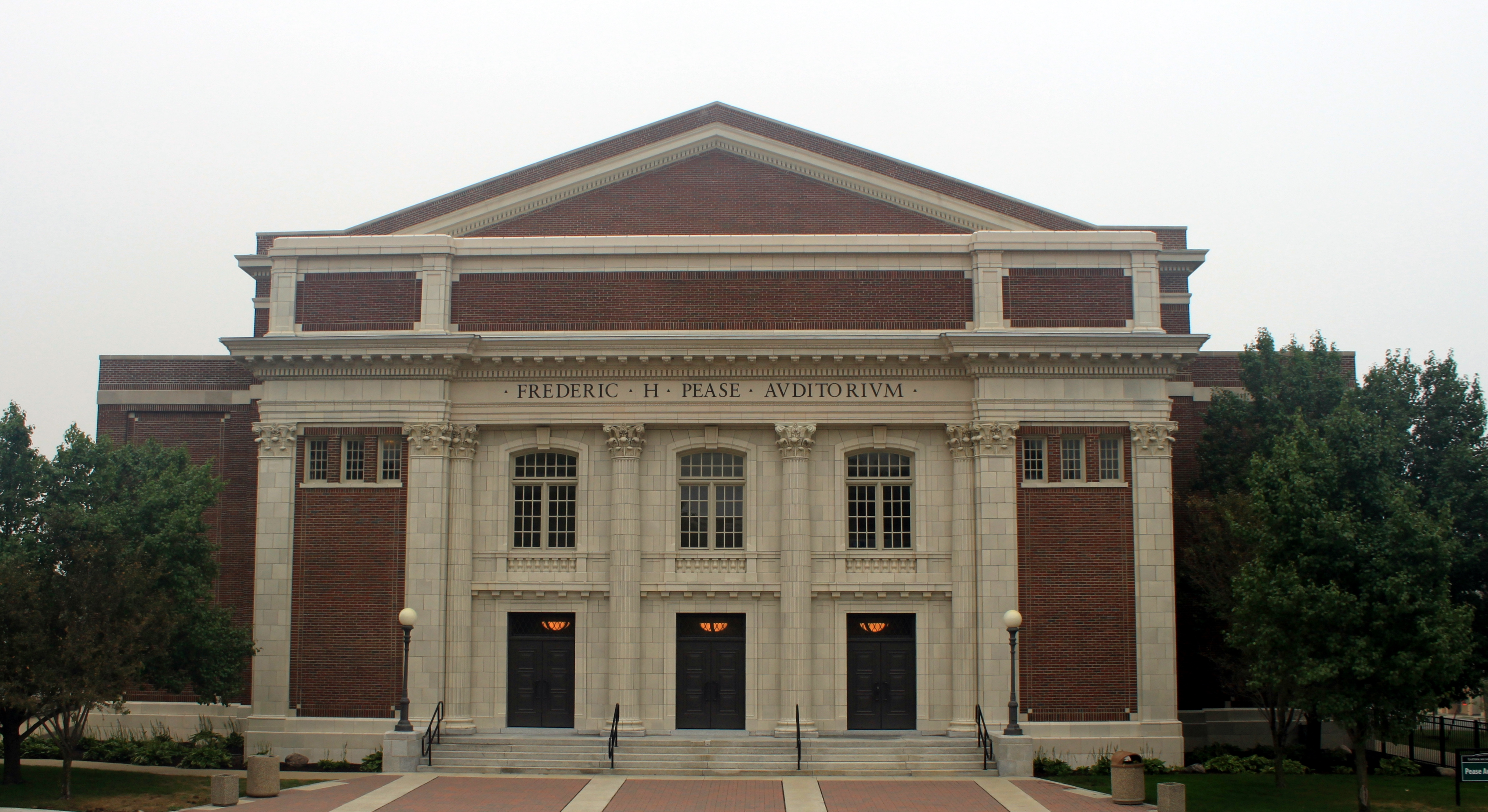 Pease Auditorium, Eastern Michigan University, Ypsilanti Michigan